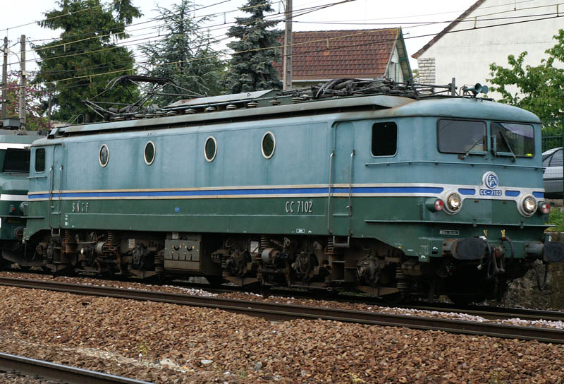 CC 7102 in Le Mée Sur Seine (France)